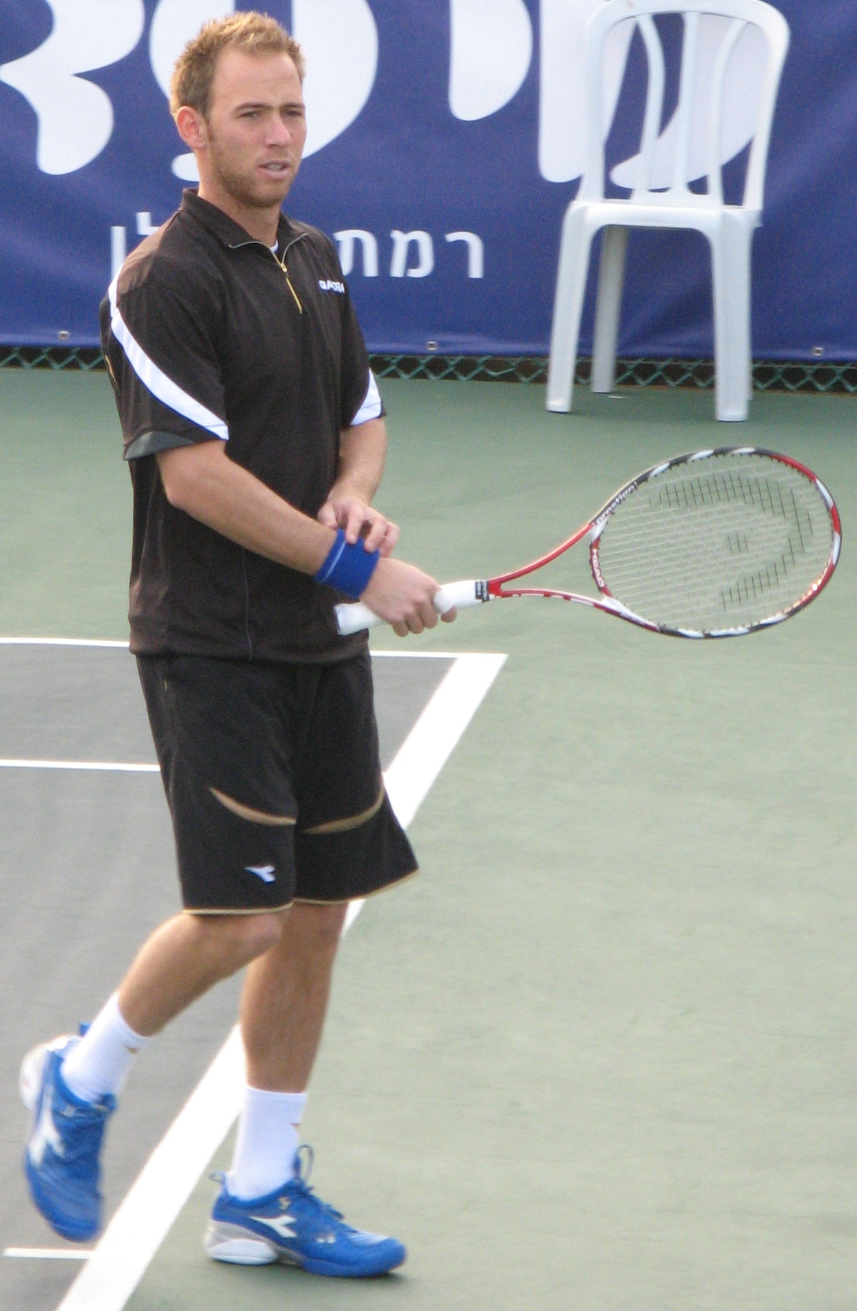 Israeli tennis player Dudi Sela at the Israel tennis championship 2008 final against Harel Levy